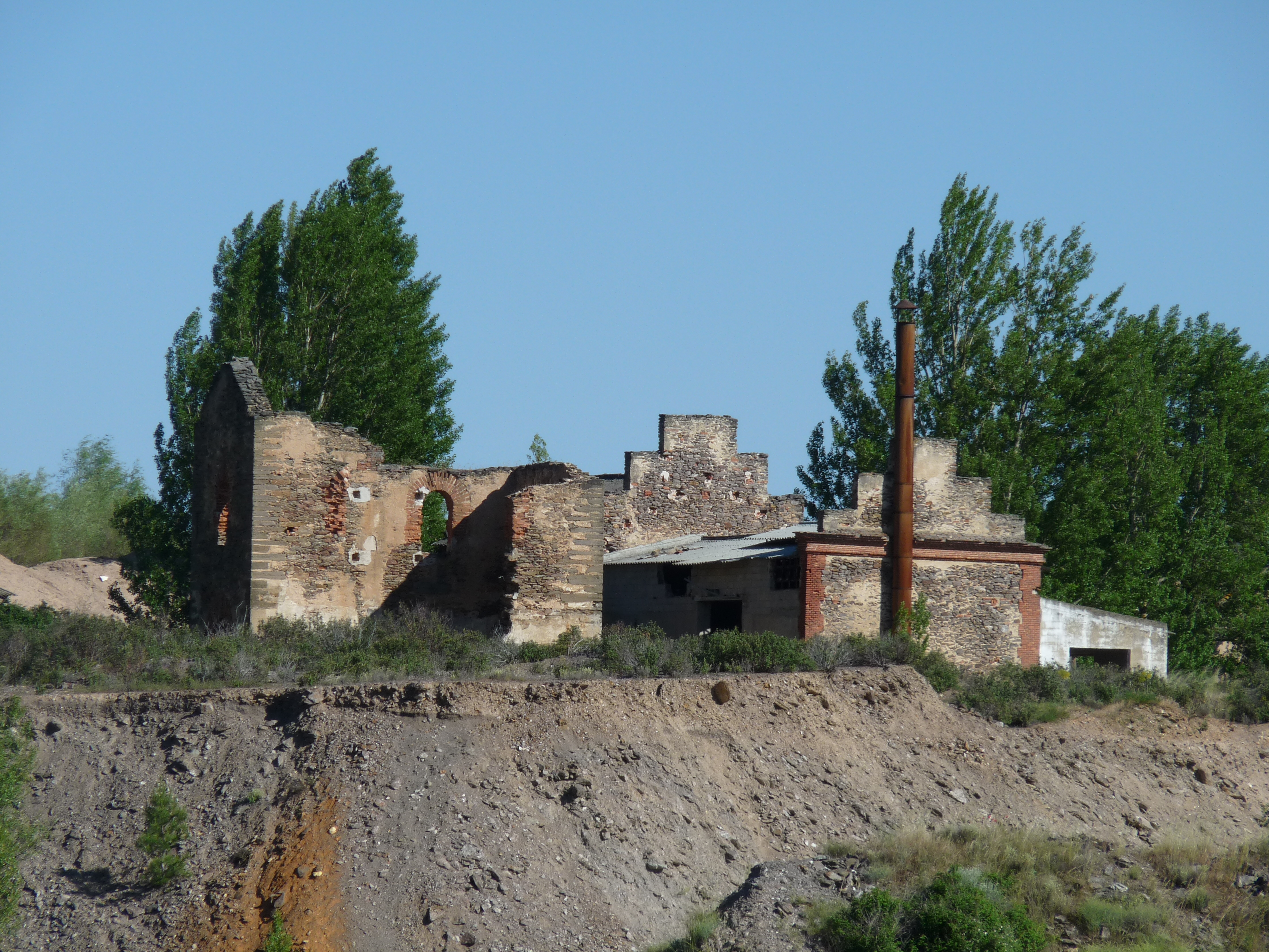 Ruins in Hiendelaencina, Guadalajara, Castile-La Mancha, Spain.